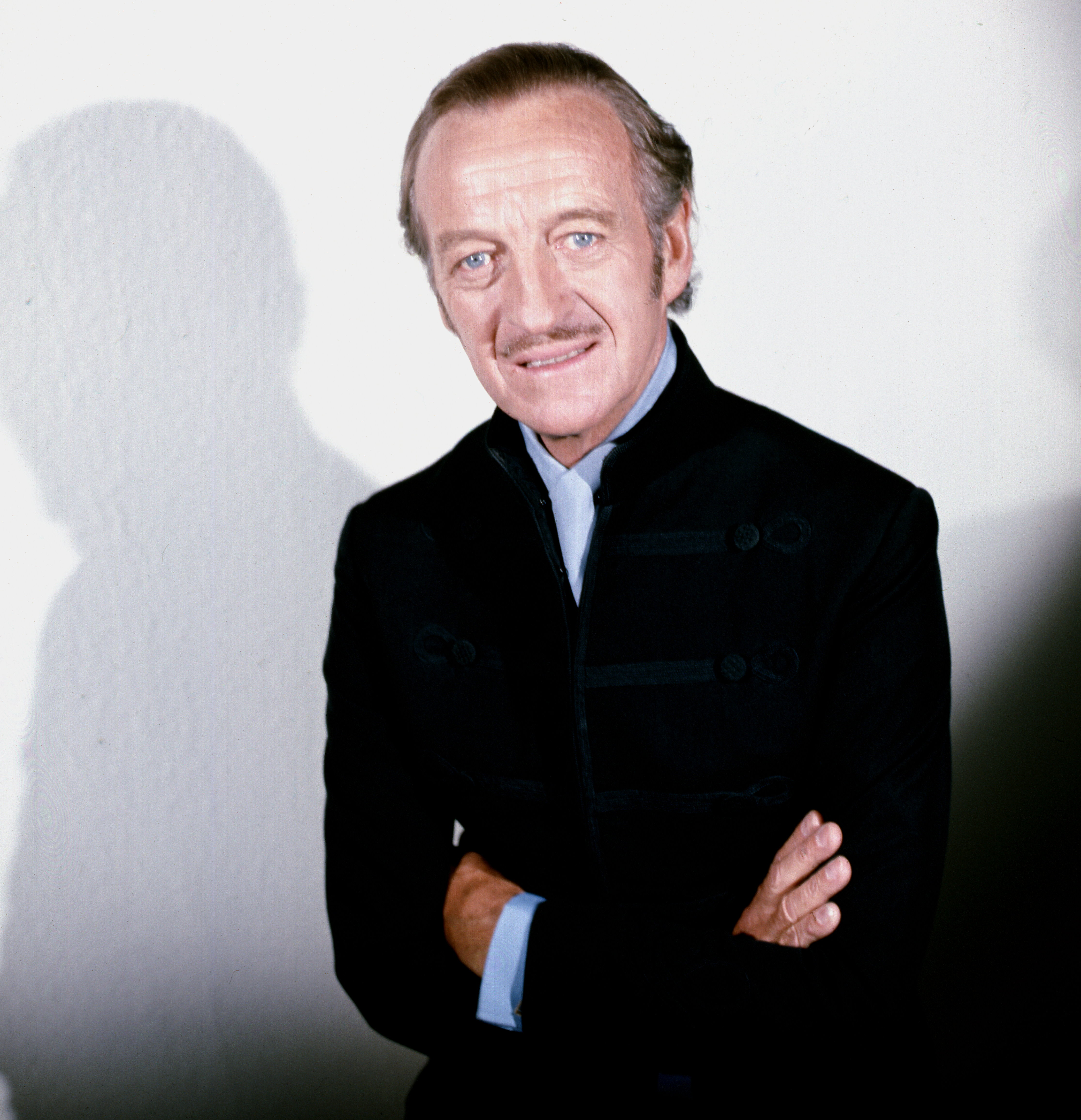 portrait